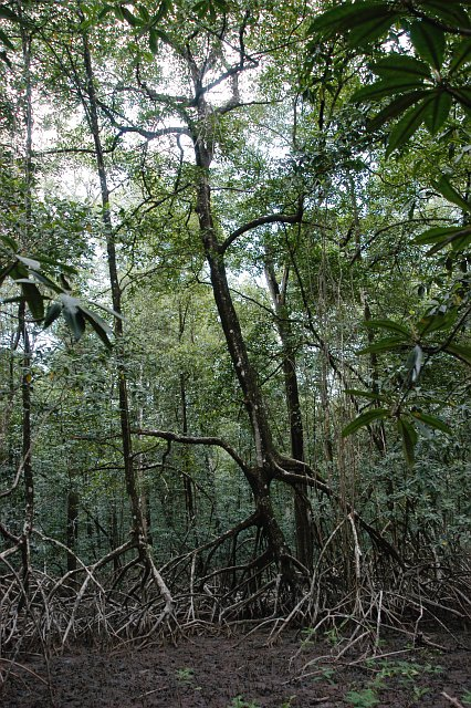 Rhizophora racemosa trees in mangrove forest near Vigia, Pará, North Brazil.